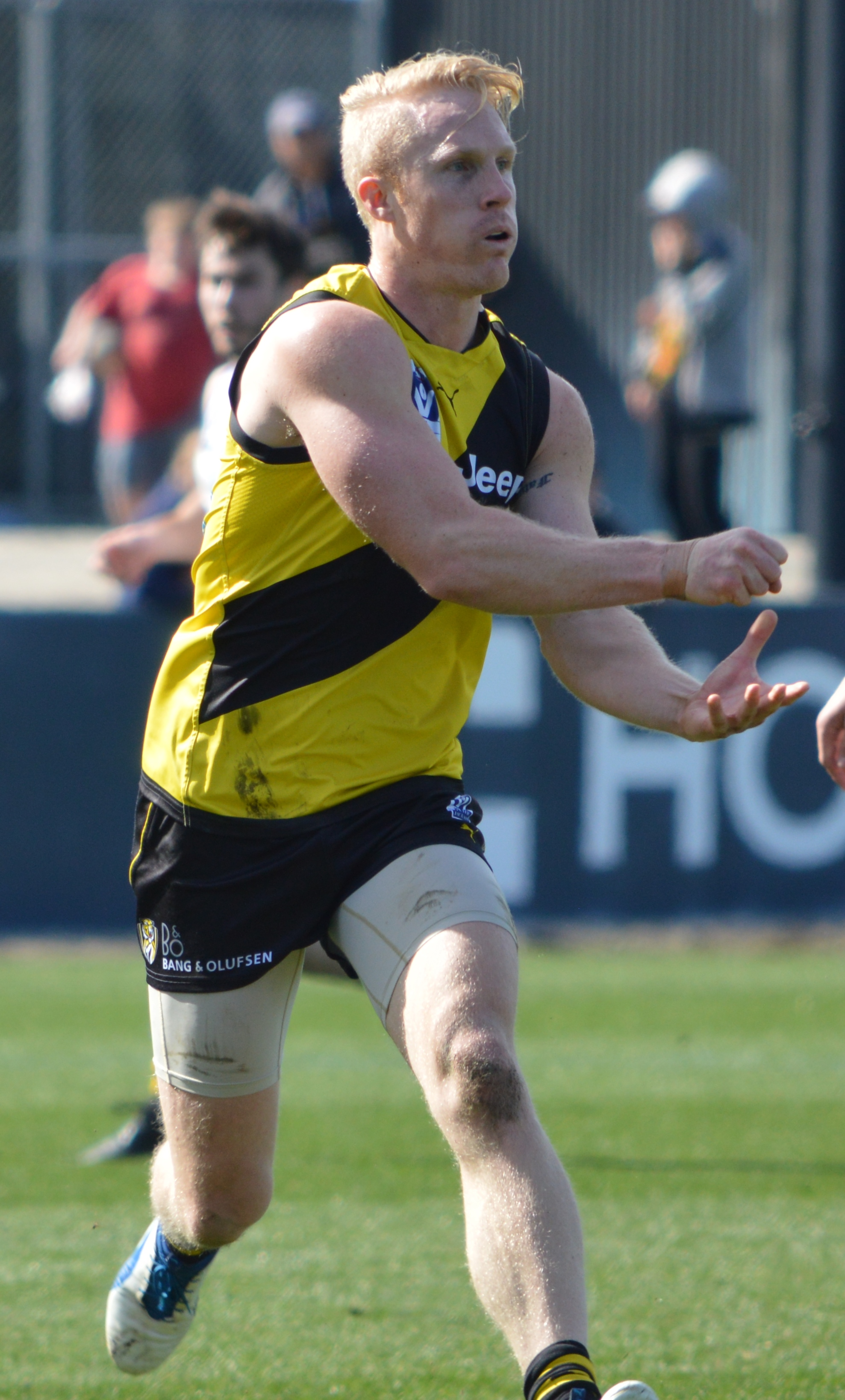 Steven Morris handballs during a VFL match in August 2017